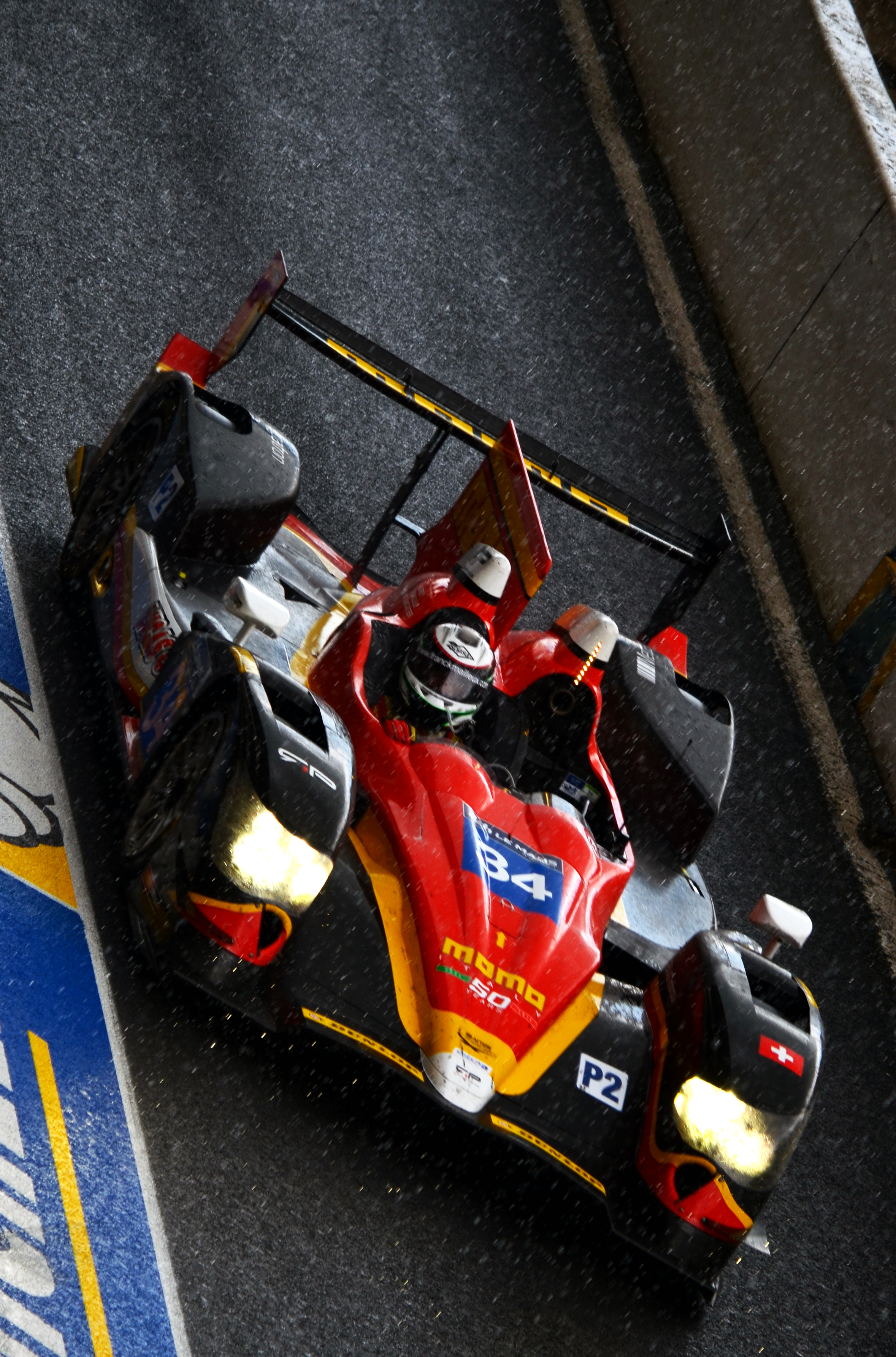 Caught in the rain A short but intense shower brought the cars into the pits for a change of tyres.